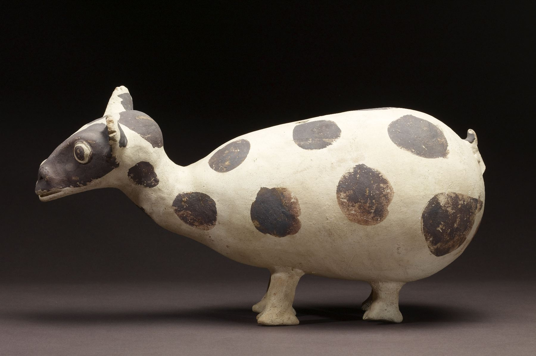 The llama, a native camelid of the Americas, touched all aspects of Andean life. The llama- the only native American beast of burden-was used primarily to transport goods from the coastal deserts to the highest mountain plains. Well adapted to the extremes of the Andean environment, including climate, terrain, and altitude, the llama was at the heart of every Andean home. The llama and its camelid cousins (alpaca, guanaco, and vicuña) provided the all-important hairs that were spun into fibers to weave warm garments of considerable strength and durability. Such clothing was crucial for survival during cold Andean nights and in the altiplano highlands. Llamas also provided body heat for shepherds and other laborers who could not return to a warm home every night. Llama blood was an important ritual offering, and its meat was occasionally consumed for protein, although the high value of the living animal made these latter uses infrequent and of special significance. During the Late Intermediate Period, the Chancay Valley and adjacent Chillón Drainage developed an energetic corporate style of architecture and art. Large amounts of ceramics were produced and distributed among the ruling elite as well as those of lesser status. Among these are the distinctive mold-made and hand-modeled sculptures of humans (both men and women) and animals. This engaging sculpture of a young llama captures the animal's natural inquisitiveness. It cocks its head slightly to the side as if watching intently some unseen activity. The artist divided the llama's face into two halves, painting one side white and the other black, following the Andean principle of duality and balance. The artist also designated the animal's sex as male, and embellished the body with black spots, one of the natural coloration schemes of the animal. Typical of the distinctive Chancay pottery style is the somewhat haphazard modeling and painting, which enhance the piece's charm.